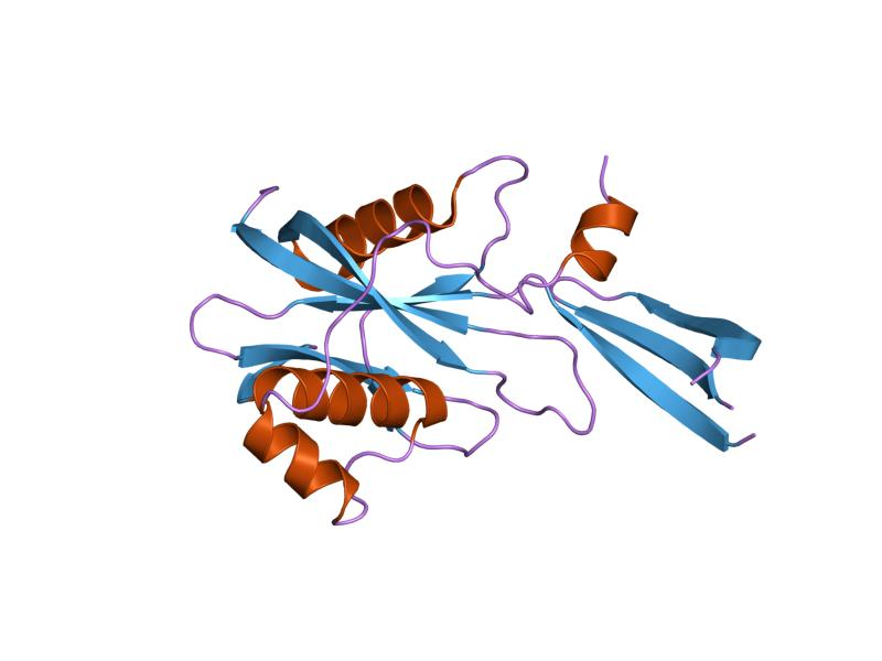 Cartoon representation of the molecular structure of protein registered with 1mp2 code.